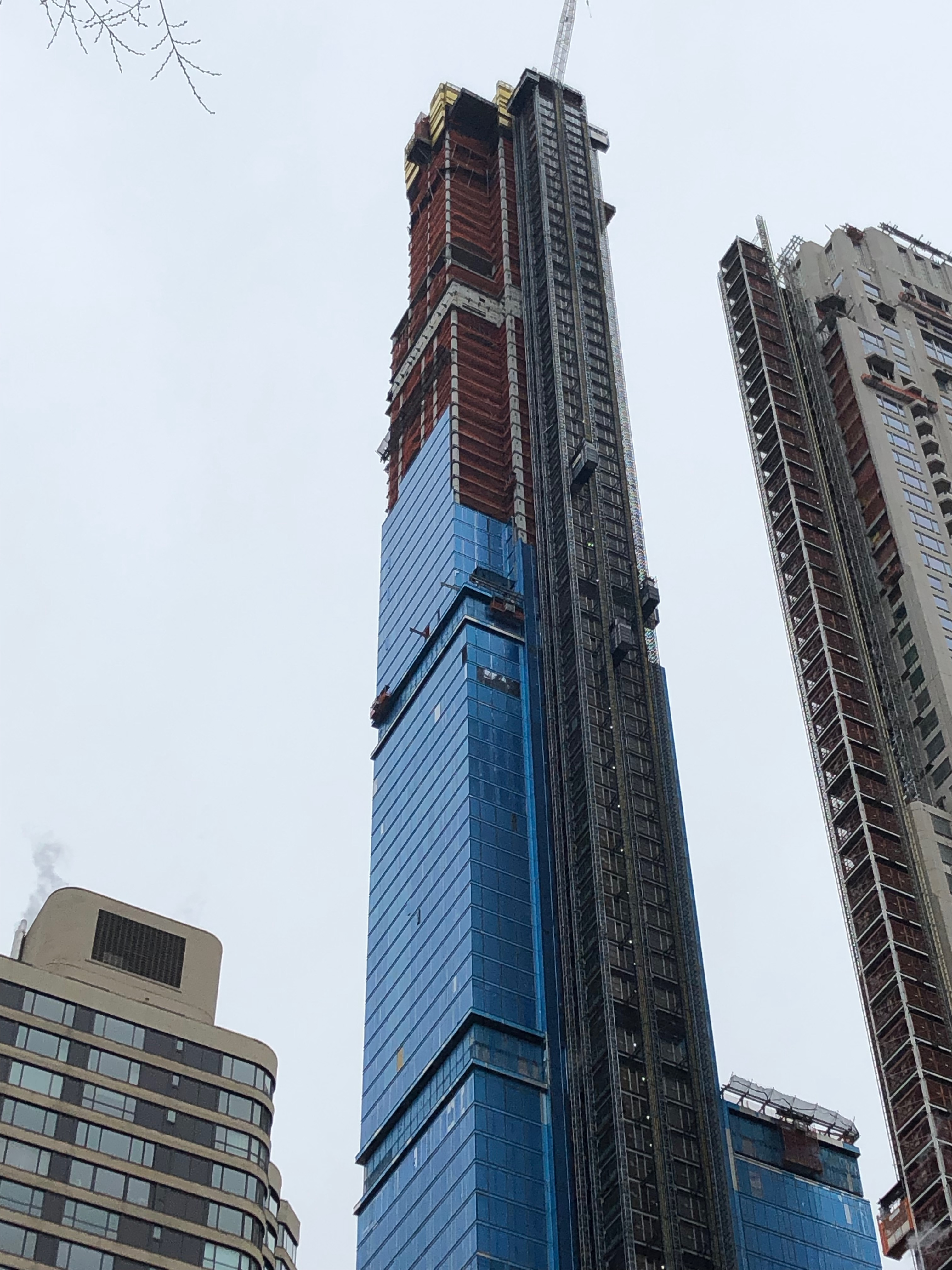 New York City's Nordstrom Tower in construction in January 2019